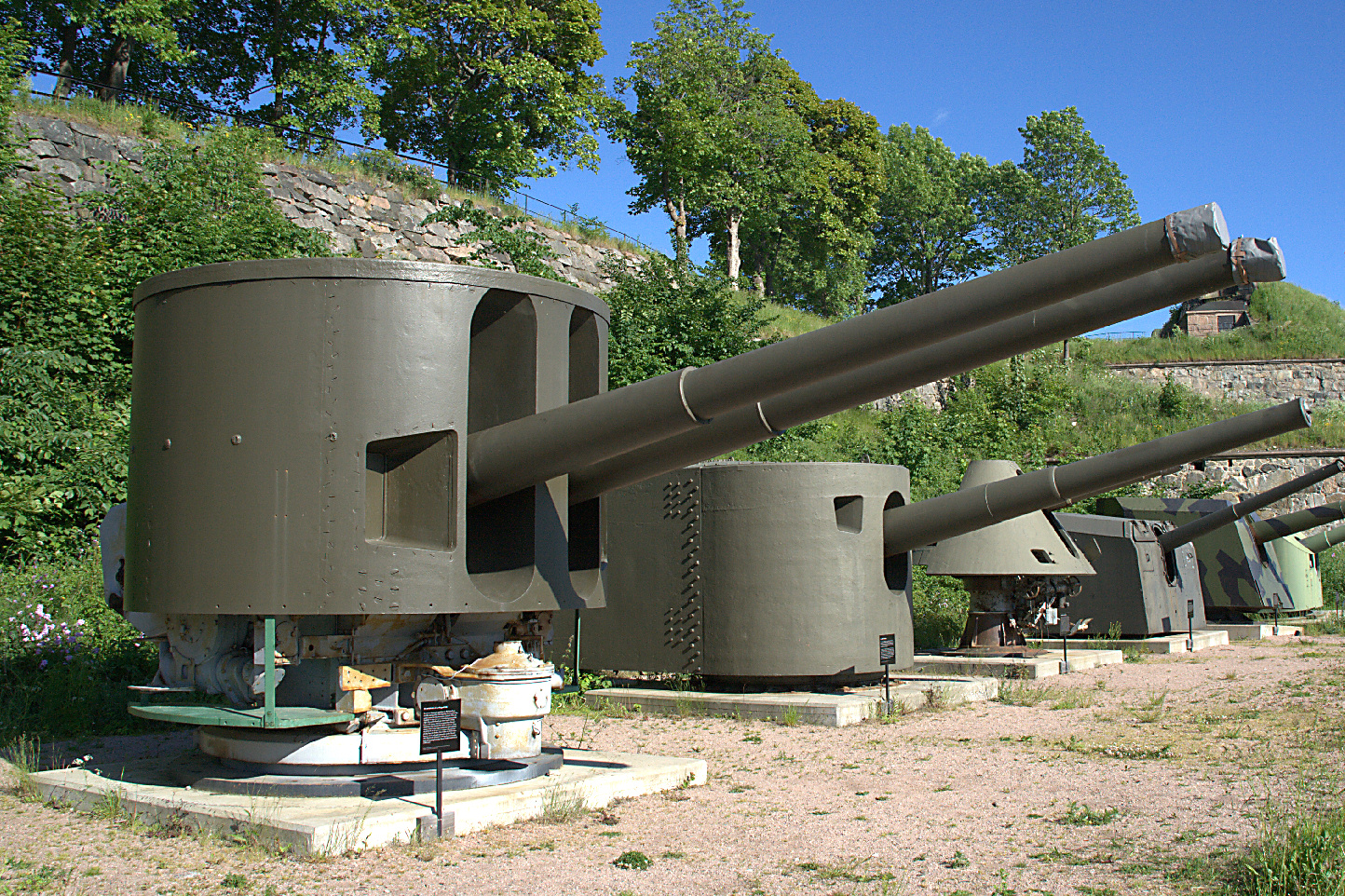 Front gun: 15 cm SK C/28 gun, in Dopp MPL C/36 mounting. Made by Rheinmetall. Now on display at Oscarsborg Festning, Norway. Other guns in the background